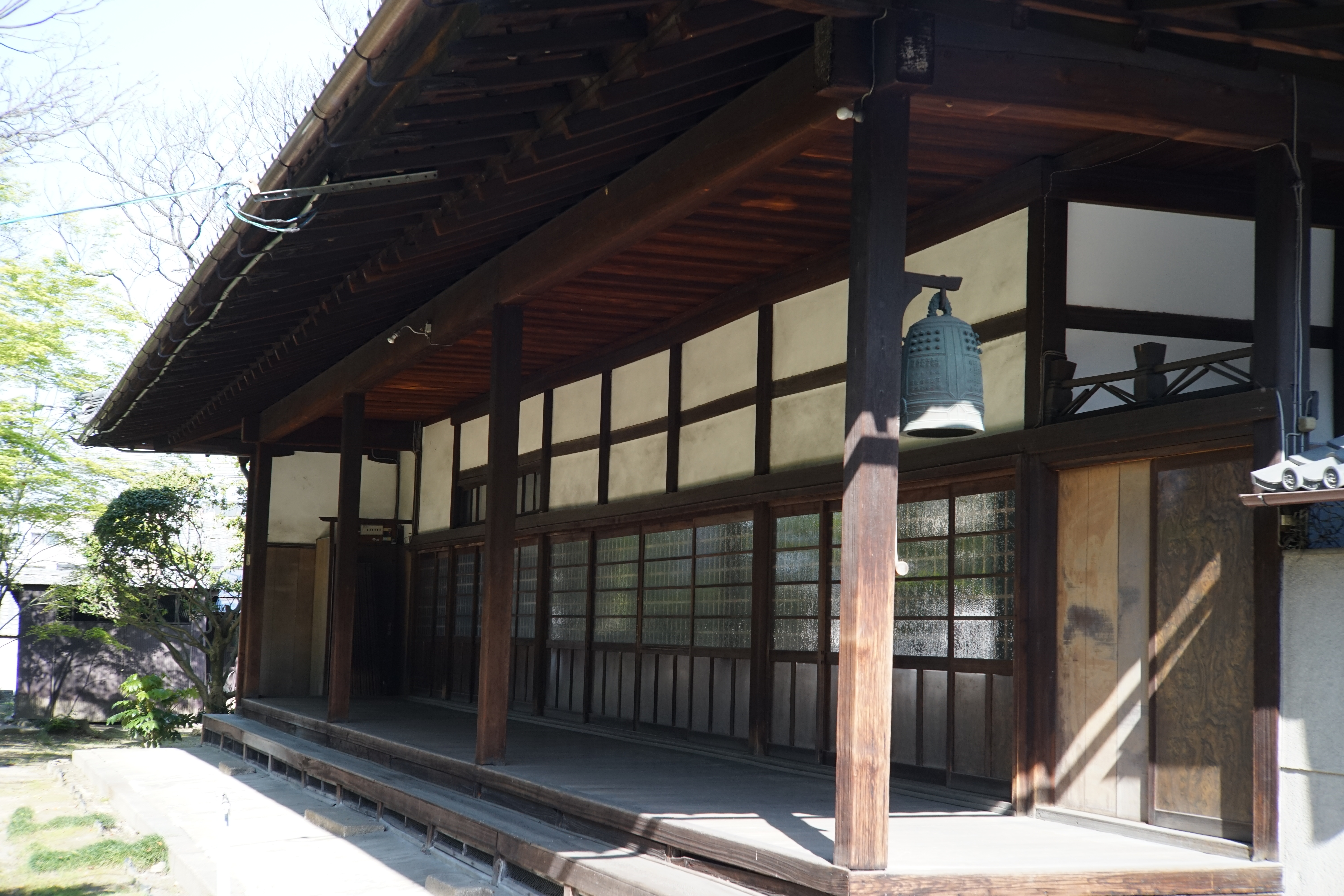 External colour photograph of Manju-ji temple Kyoto.